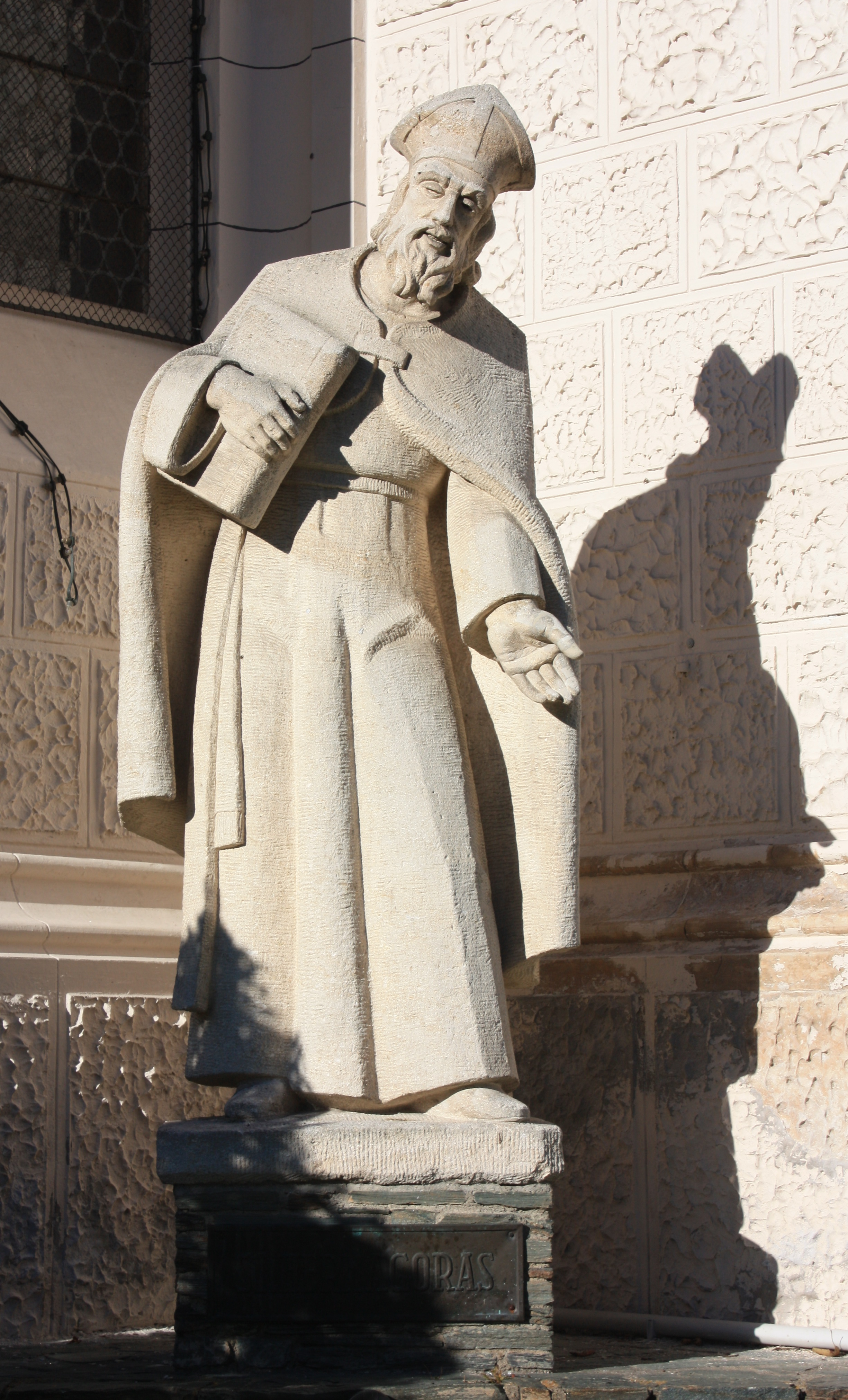 Parish church in the city Hermagor - Saint Hermogoras